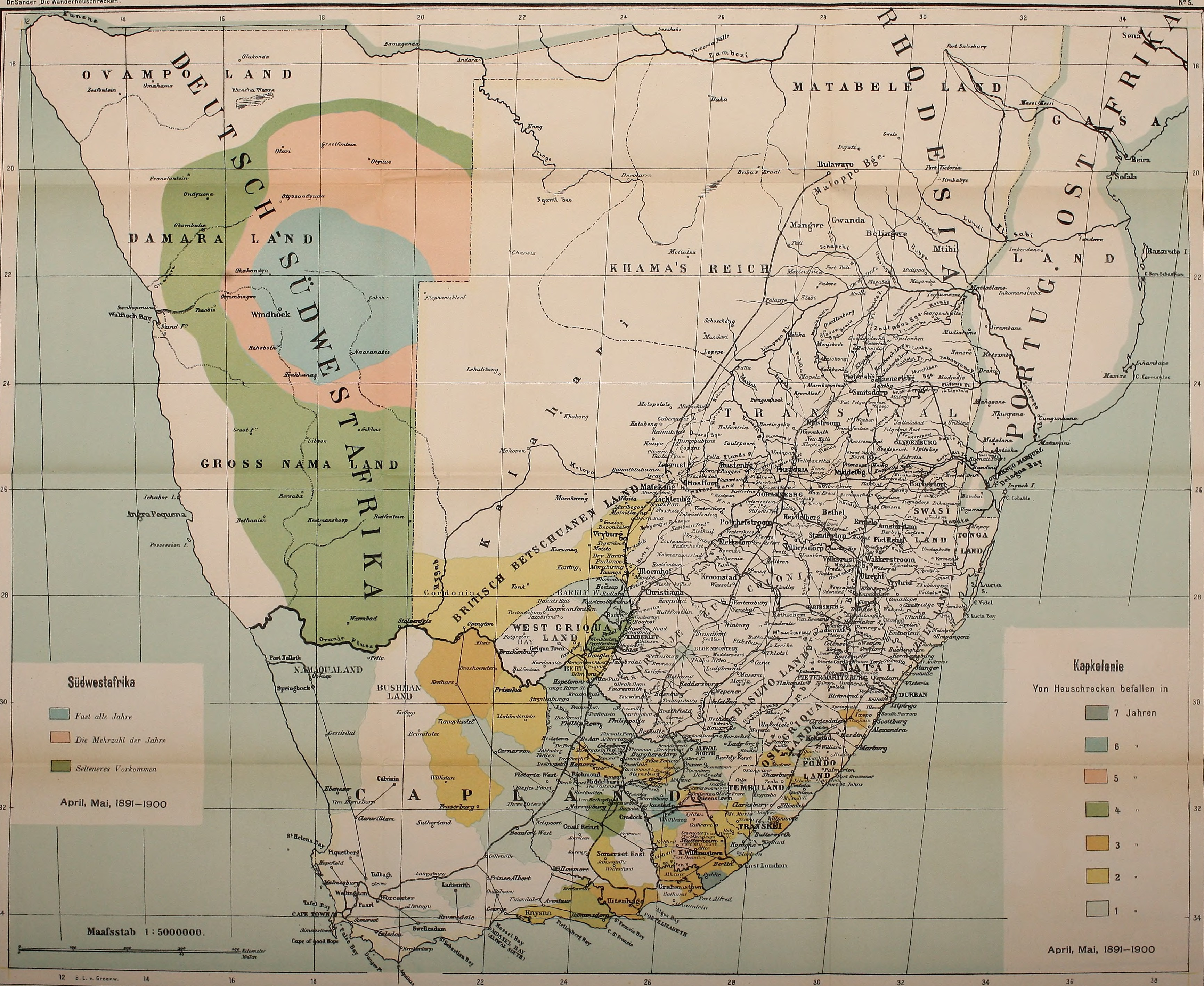 Title: Die wanderheuschrecken und ihre bekämpfung in unseren afrikanischen kolonieen Year: 1902 (1900s) Authors: Sander, Ludwig, 1859- Subjects: Insects; Locusts; Grasshoppers Publisher: Berlin, D. Reimer (E. Vohsen) Text Appearing Before Image: Häufigkeit der Heuschrecken in den einzelnen Teilen der Kapkolonie Tjezieimngsweise Südwest-Afrika während der verschiedenen Monate in den Jahren 1891 bis 1900. Text Appearing After Image: Gsographische Wrlajshandlung DIETRICH REIMER (ERNST VOHSEN) Berlin